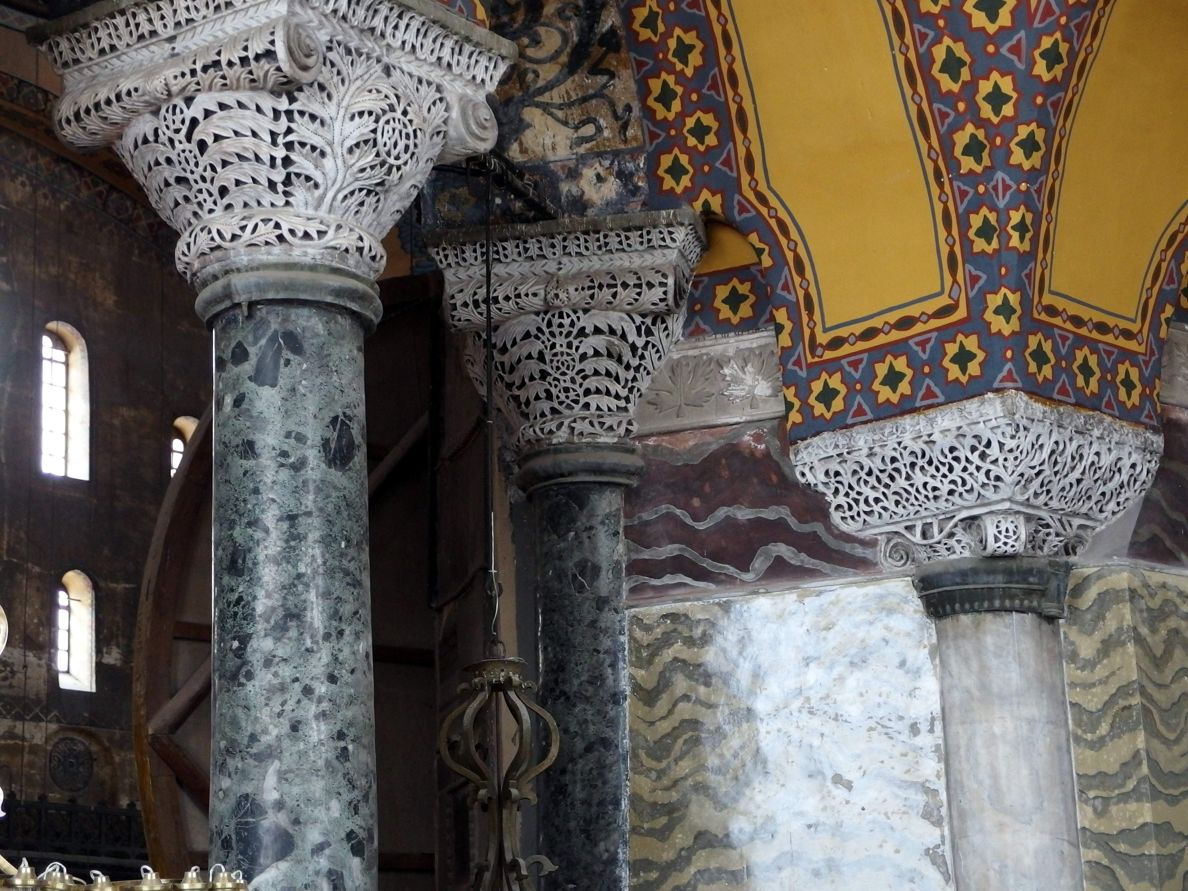 2013-12-03 in Istanbul.